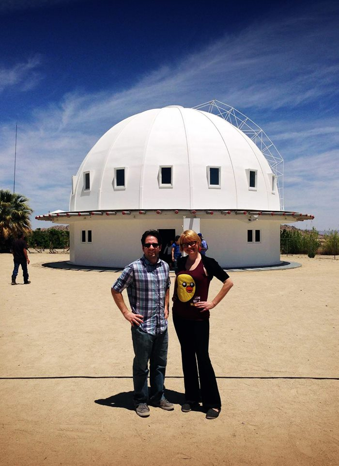 Ross Blocher and Carrie Poppy, in front of the Integratron, in Landers, California. Taken during an investigation for the podcast "Oh No, Ross and Carrie!"